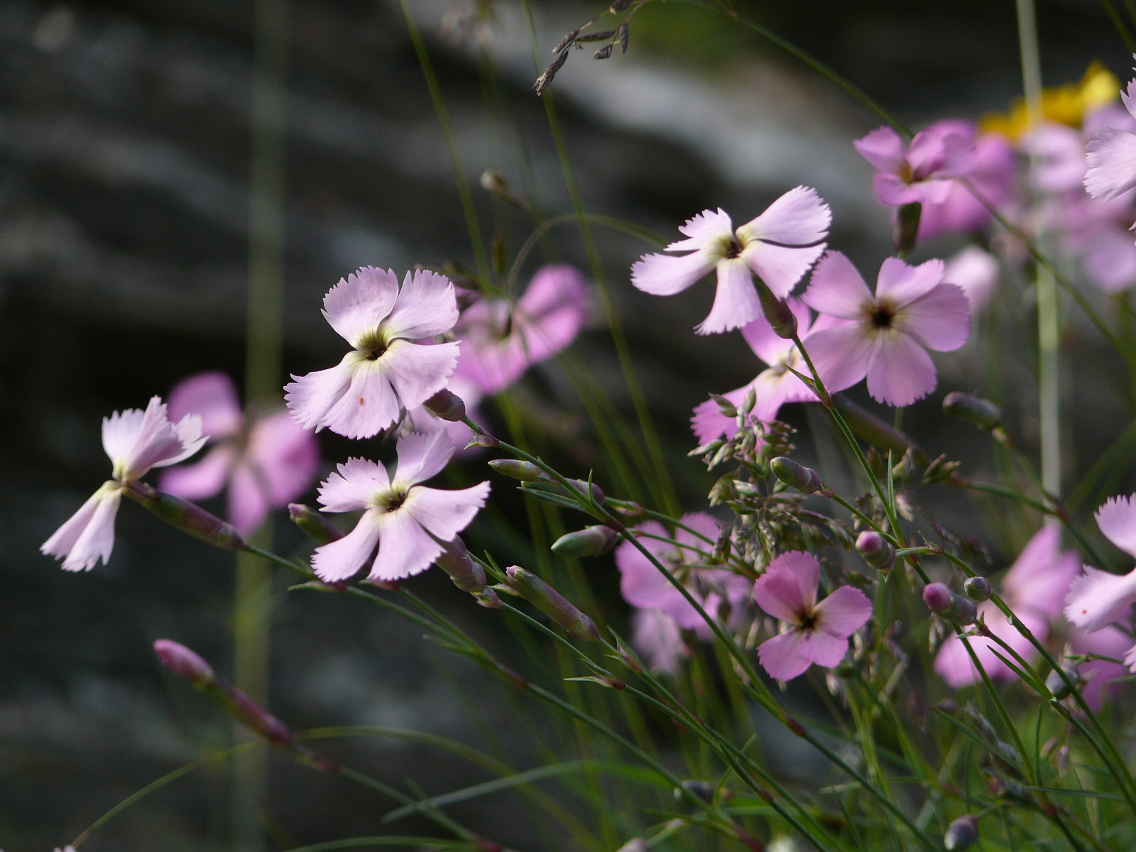 Dianthus sylvestris, Zillertaler Alpen, Italy